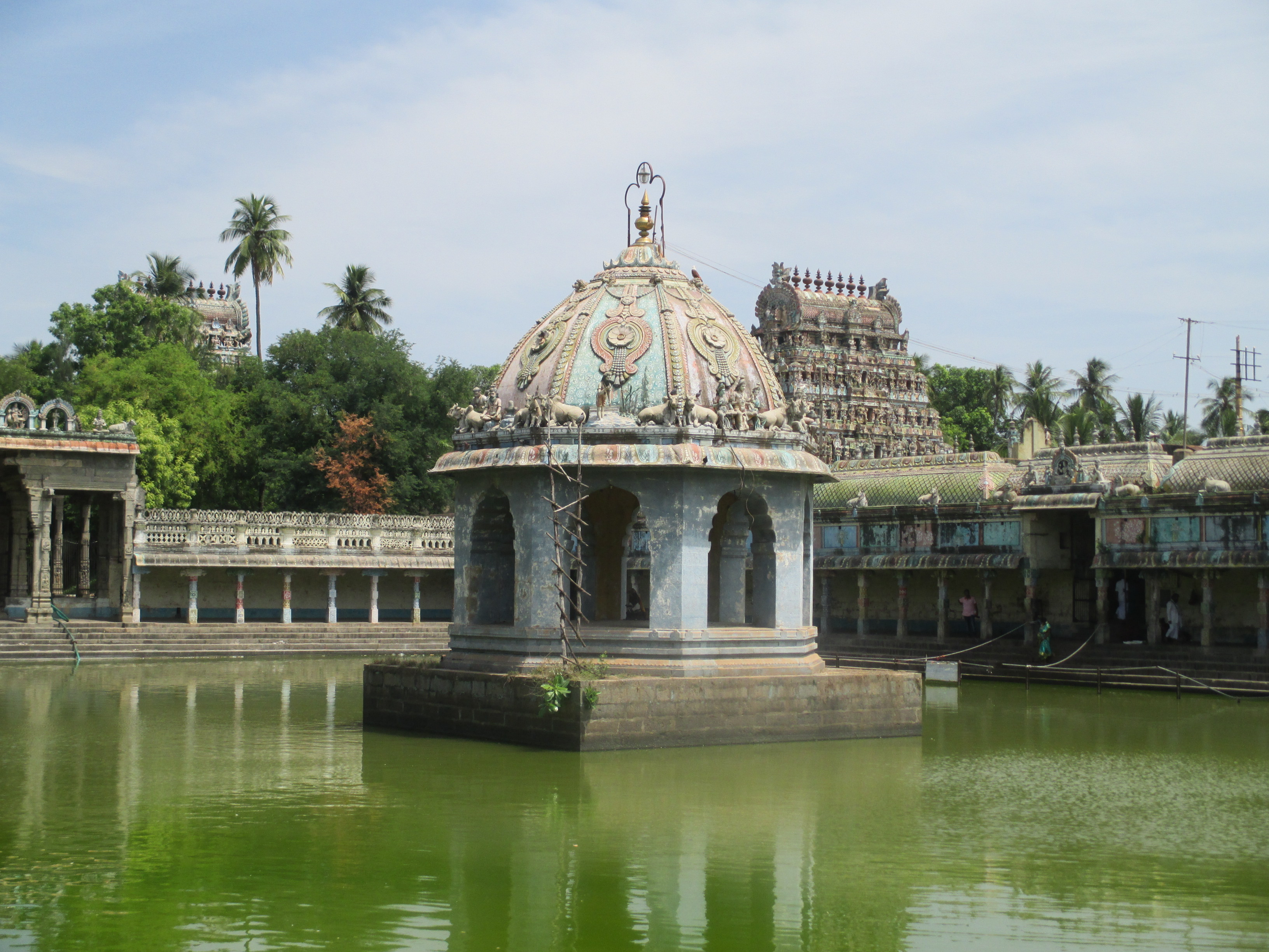 Vaitheeswarankovil1